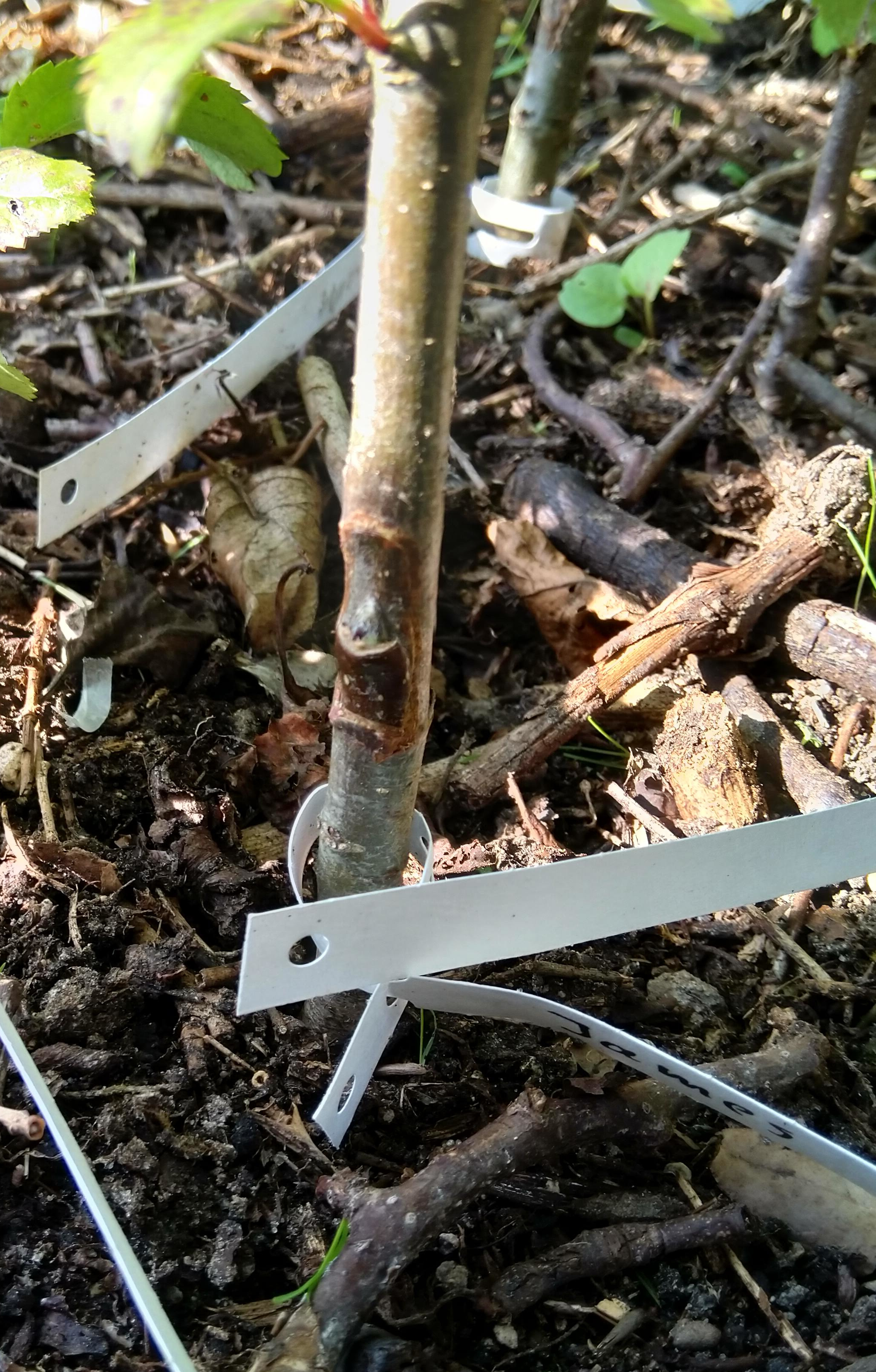 A chip of scion wood material containing a bud, from a James Grieve apple tree, has been grafted onto an apple tree grown from seed.